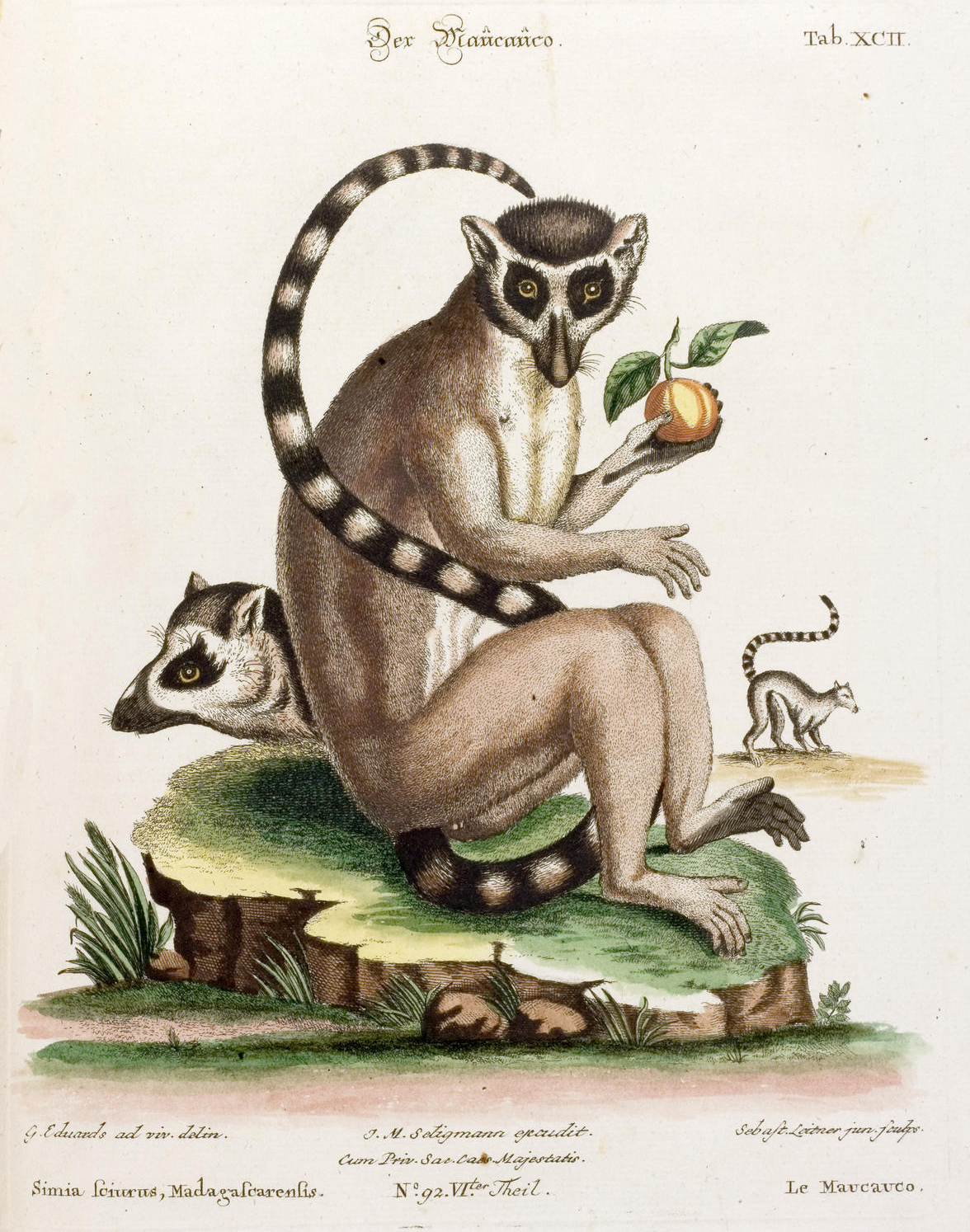 Early artwork of Lemur catta by George Edwards. Text at top says: "Der Maucauco. Tab. XCII." (The Maucauco [old name for various lemurs]. Plate 92.) Text at bottom says: "G. Eduards ad viv[um]. delin[eavit]. / J. M. Seligmann excudit / Cum Priv[ilegio]. Sac[rae]. Caes[arae]. Majestatis / Sebast. Leitner jun[ctus?] sculps[it]. / Simia sciurus, Madagascarensis / No. 92 VIter Theil / Le Maucauco" (G. Edwards drew it from life / J. M. Seligmann took it out / With the privilege of the Holy Roman Emperor / Sebastian Leitner jointly engraved it / Monkey squirrel, from Madagascar / Nr. 92 of the 6th part / The Maucauco"